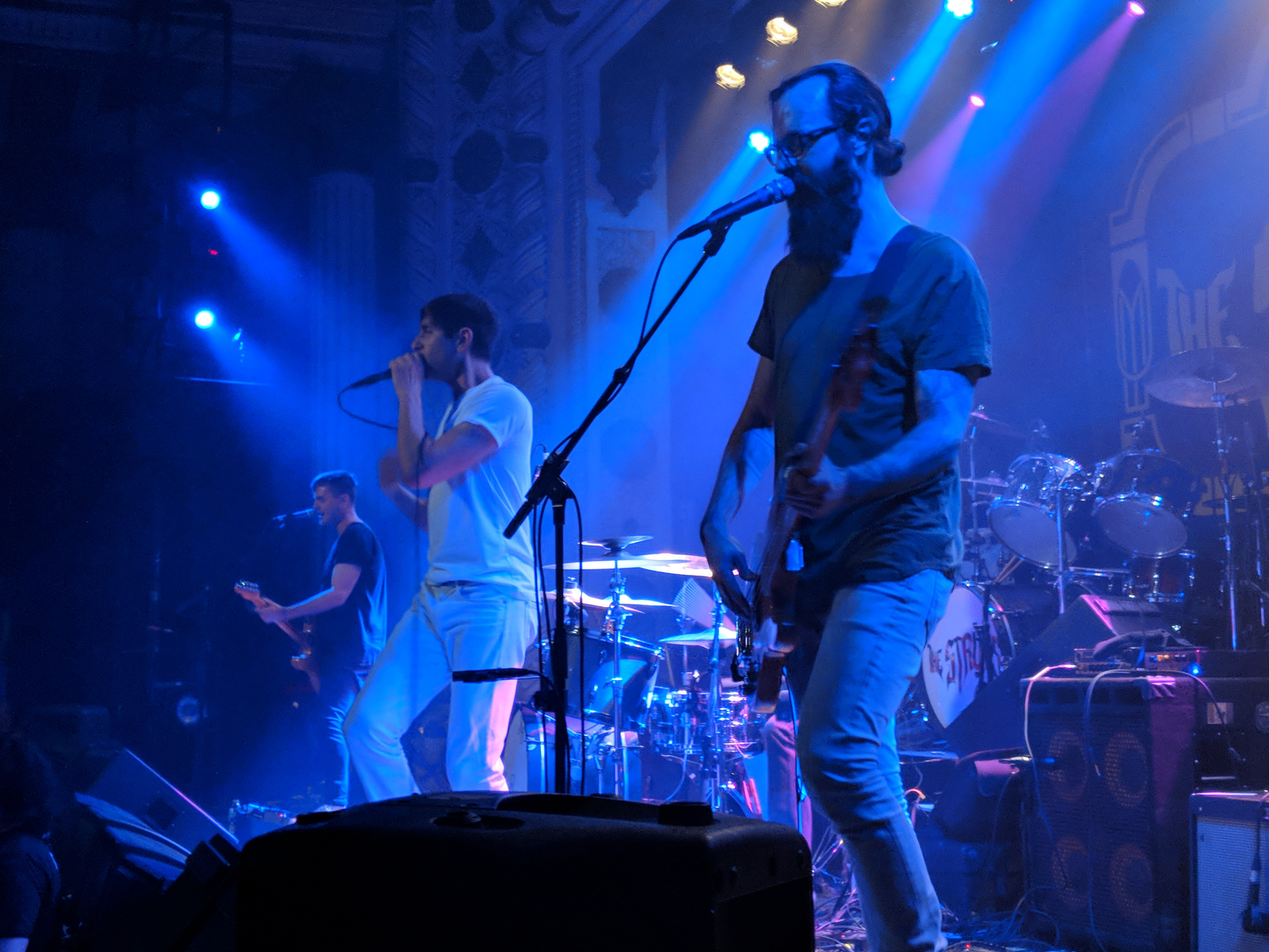 Spirit Animal at the Metro in Chicago 5-9-18, taken by Ronald Smith